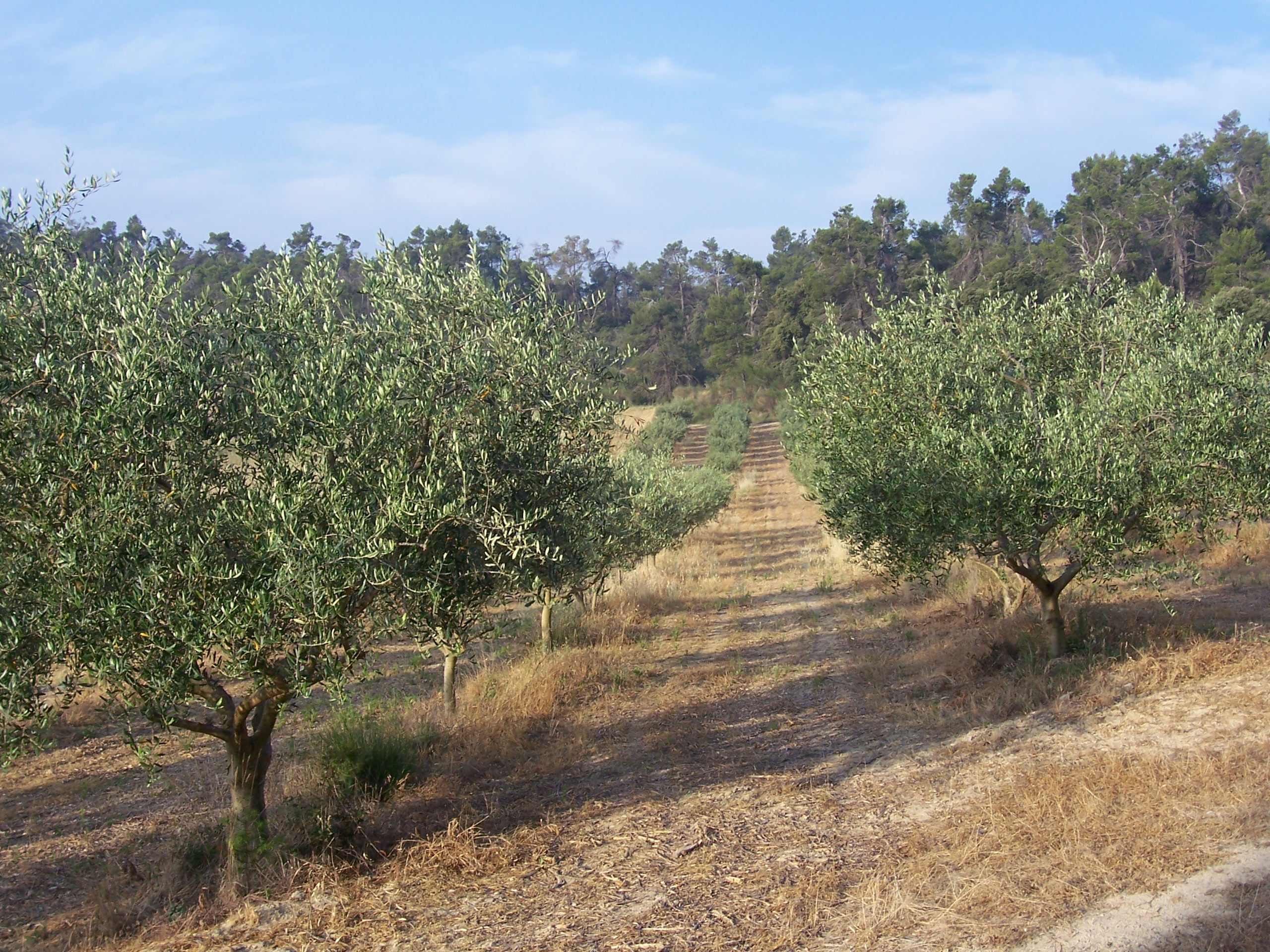 Champ d'oliviers